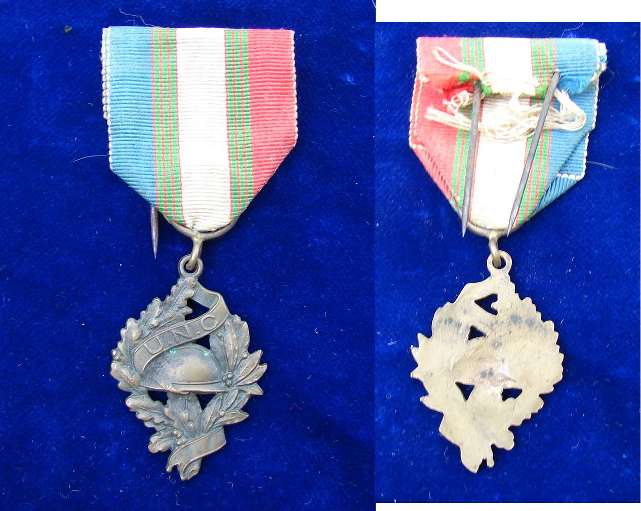 French WW1 helmet between oak and laurel leaves, above on a ribbon: U.N.C. for Union Nationale des Combattants (= National Union of Combatants), founded in November 1918. Bronze 26 x 35 mm Condition: EXTREMELY FINE.